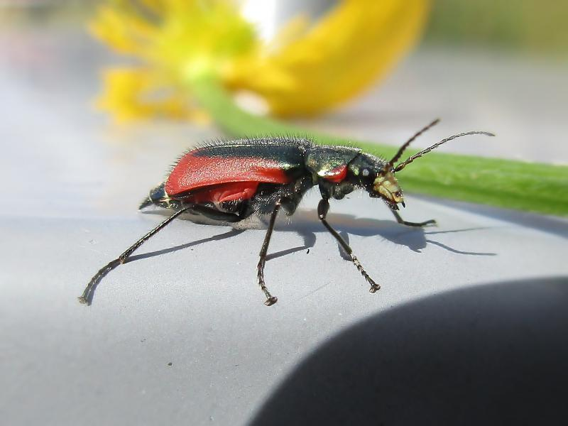 Malachius aeneus (Melyridae sp.), Texel, the Netherlands